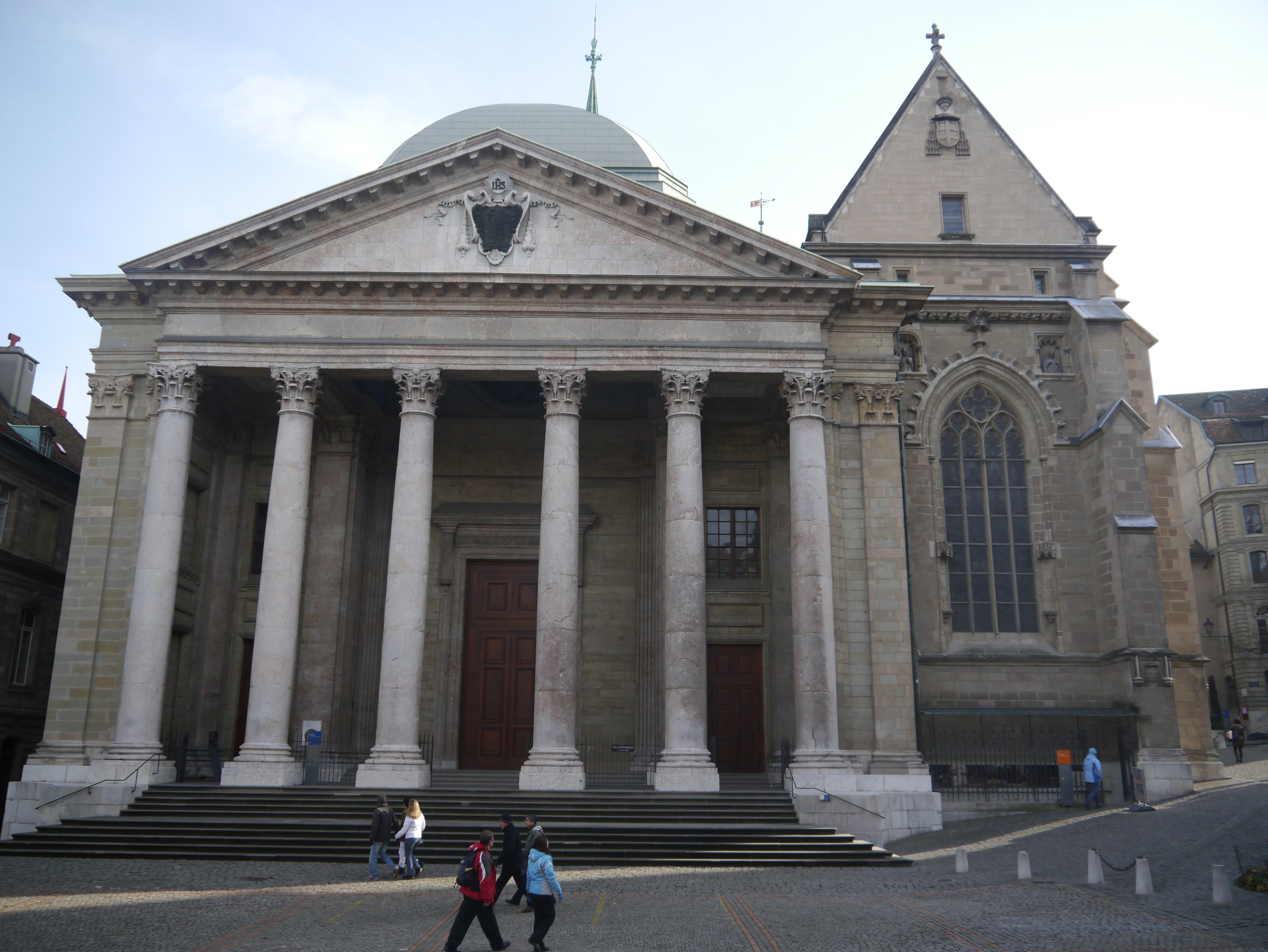 Facade of the Cathedral St. Peter, Geneva, Canton of Geneva, Southwestern Switzerland